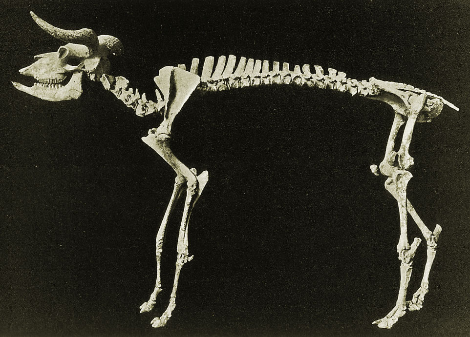 Euceratherium (Preptoceras) sinclairi. Temporary mount of the type specimen. Samwell Cave, Shasta County, California, USA. Furlong, E. L. 1904-1906. Preptoceras, a new ungulate from the Samwel Cave, California. University of California Publications. Bulletin of the Department of Geology 4(8):163-169.